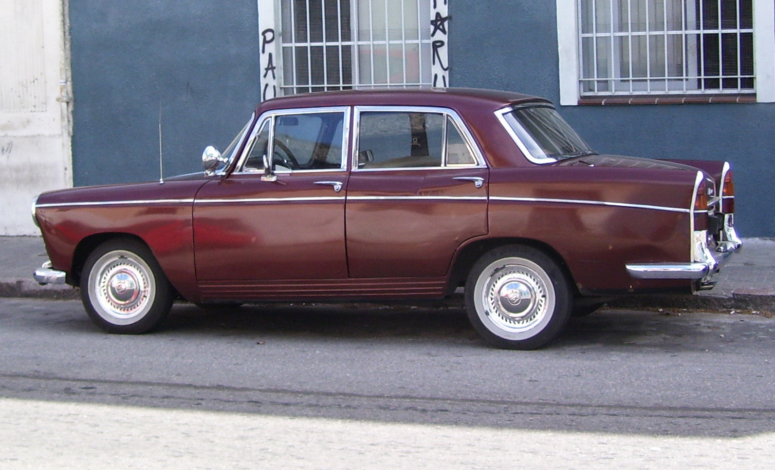 Side image of a Morris Oxford Diesel, at Montevideo, Uruguay, October 2010.